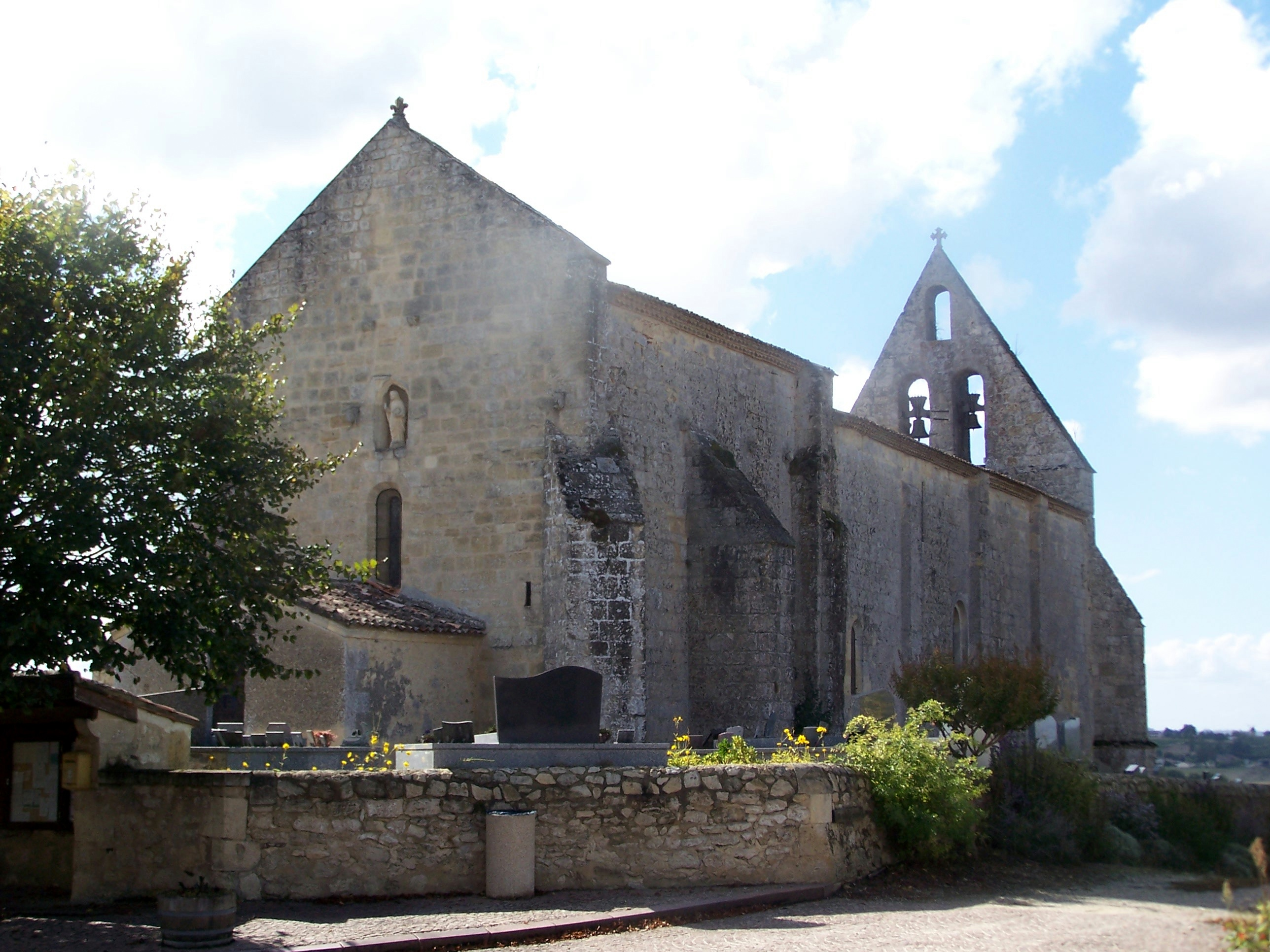 Our Lady church of Castelviel (Gironde, France)